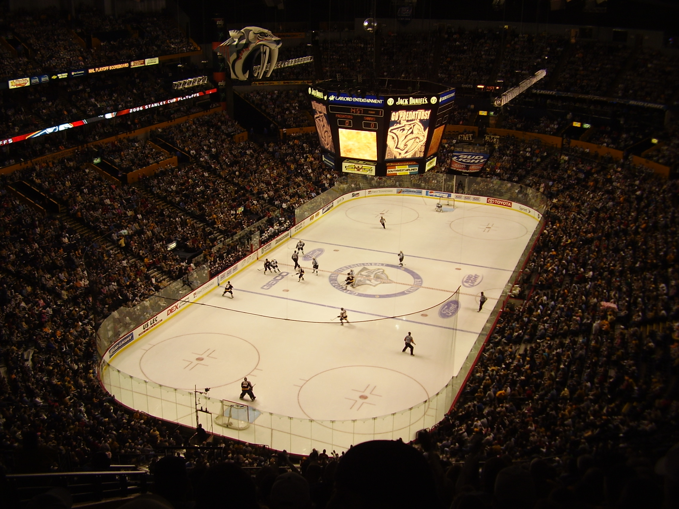 Sommet Center (formerly Gaylord Entertainment Center) interior, as viewed from Section 303, during the Nashville Predators' 2-1 loss to the San Jose Sharks during the 2005-06 NHL Stanley Cup Playoffs on April 30, en:2006.